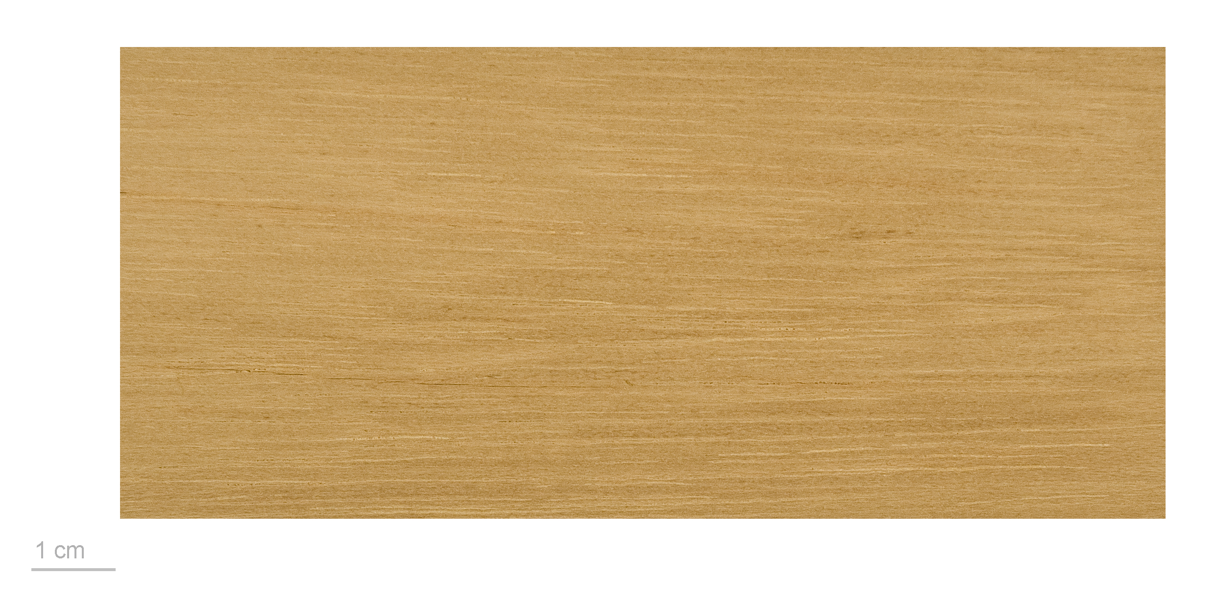 Wana kouali , wood